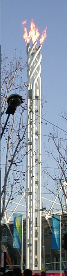 Olympic flame at Torino 2006